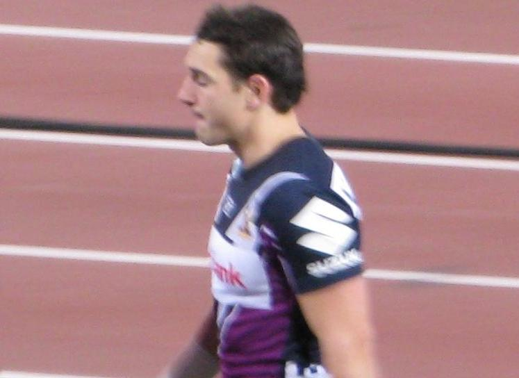 Billy Slater